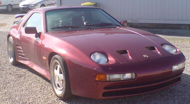 Strosek Porsche 928